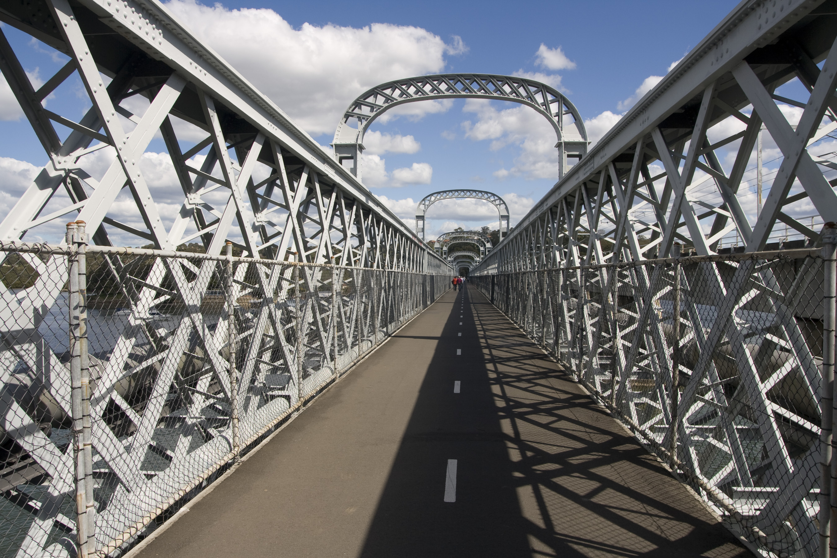 Oatley NSW 2223, Australia